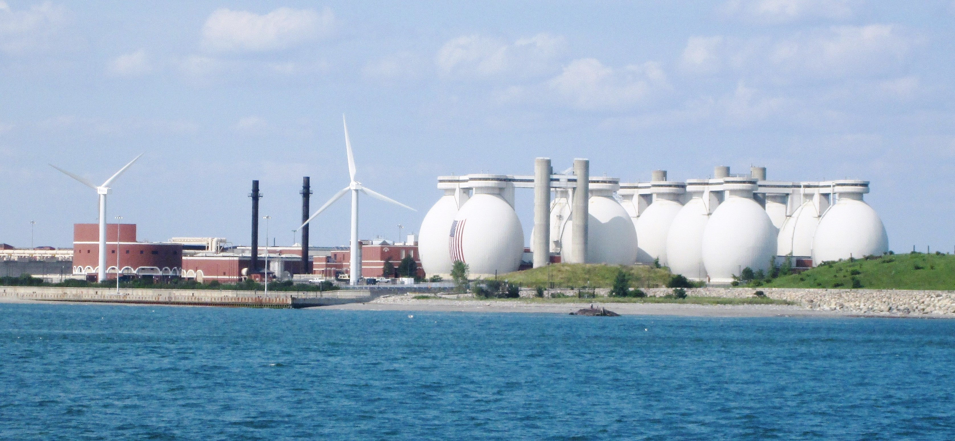 The Deer Island Waster Water Treatment Plant is located on Deer Island, one of the Boston Harbor Islands in Boston Harbor. The plant is operated by the Massachusetts Water Resources Authority (MWRA) and began partial operations in 1995. The facility was fully operational in 2000 with the completion of the outfall tunnel. It is the second largest sewage treatment plant in the United States. Its address is 190 Tafts Ave, Winthrop, Massachusetts.